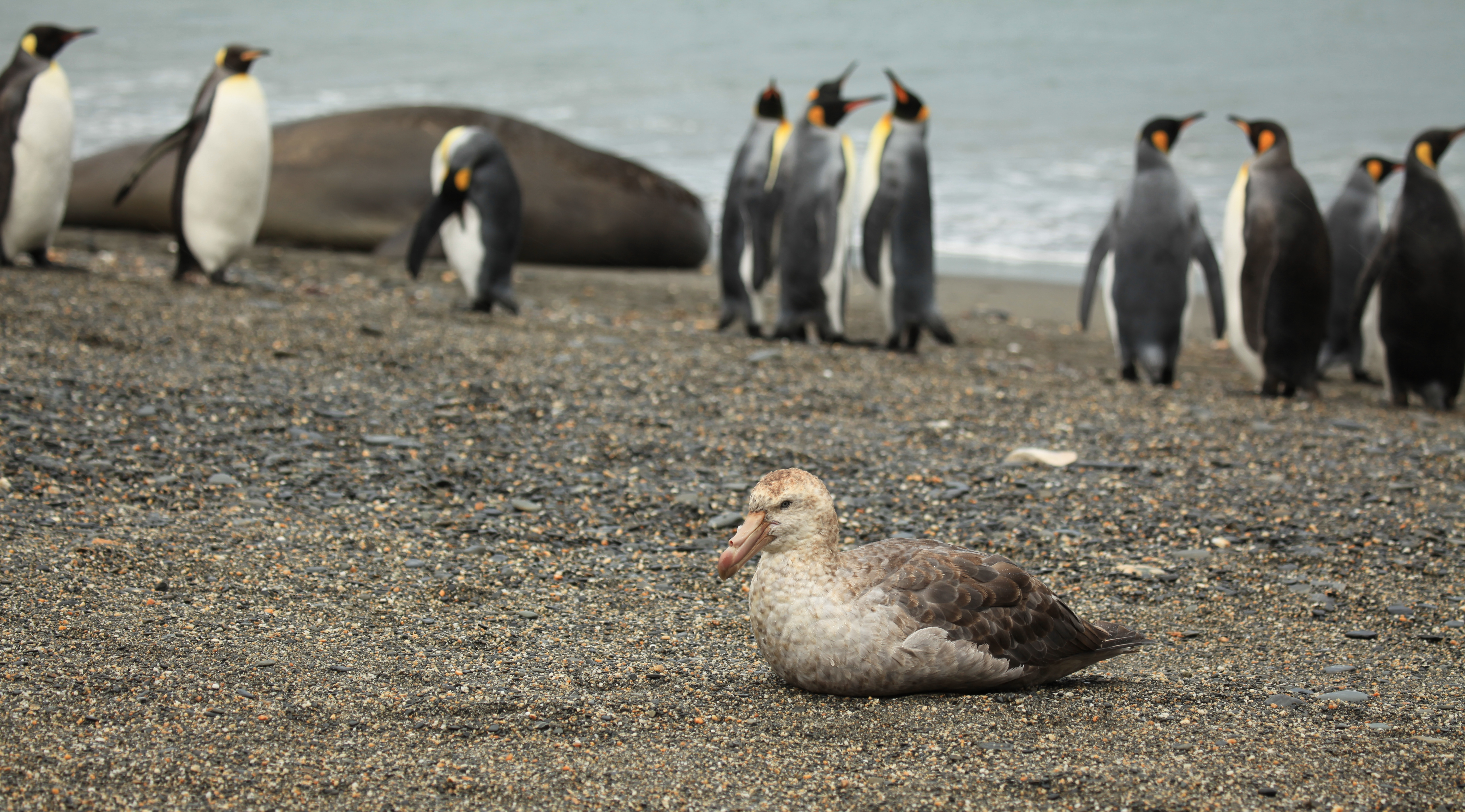 A Northern Giant Petrel in Moltke Harbour, South Georgia, British Overseas Territories, UK. King Penguins are in the background.